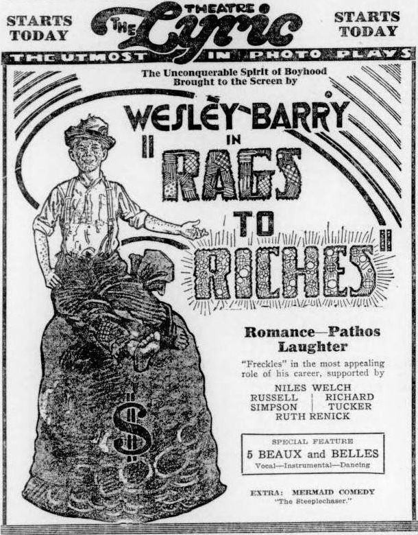 Newspaper advertisement for the American comedy film Rags to Riches (1922) with Wesley Barry, on page 5 of the October 21, 1922 Duluth Herald.